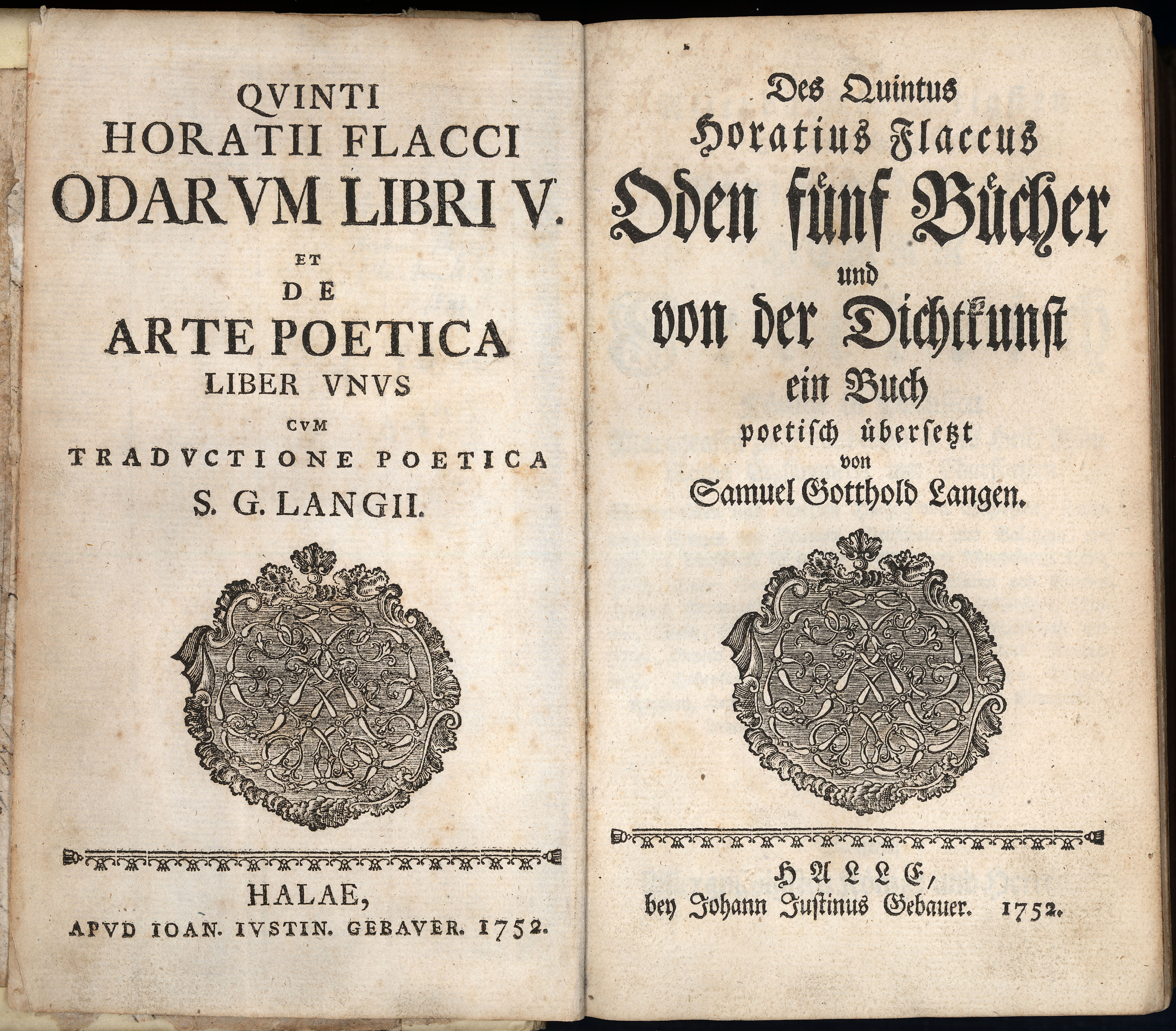 Page(s) ii-iii from the German translation of Horace’ Odes and Ars poetica by Samuel Gotthold Lange, Halle 1752. The complete original title is: Des Quintus Horatius Flaccus Oden fünf Bücher und von der Dichtkunst ein Buch[,] poetisch übersetzt von Samule Gotthold Langen [!]. Halle, bey Johann Justinus Gebauer. 1752. Lange’s translation is famous because it was harshly criticized by Lessing; some pages of the present copy show the annotations of a reader who has noted Lessing’s criticism in the margin. But Lange’s translation is also still noteworthy as one of the first ‘modern’ German translations which try to imitate the metre of the original and don’t add rhymes. Lange explains these guidelines in his preface. — The book’s first pages, including title, dedication and preface, have no pagination; I have paginated them here with Roman figures, beginning with the half title.